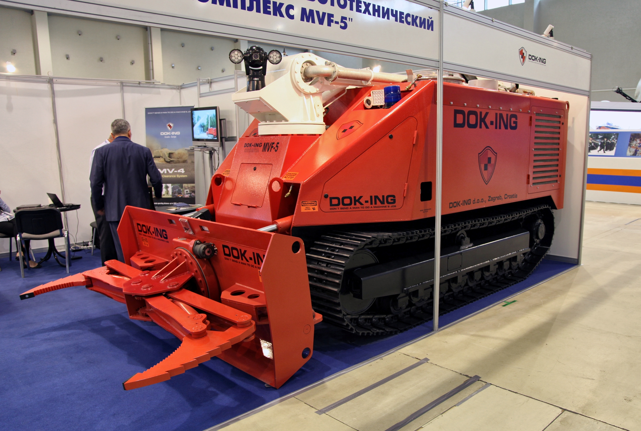 Robotic fire fighting system DOK-ING MVF-5 at ISSE-2012.